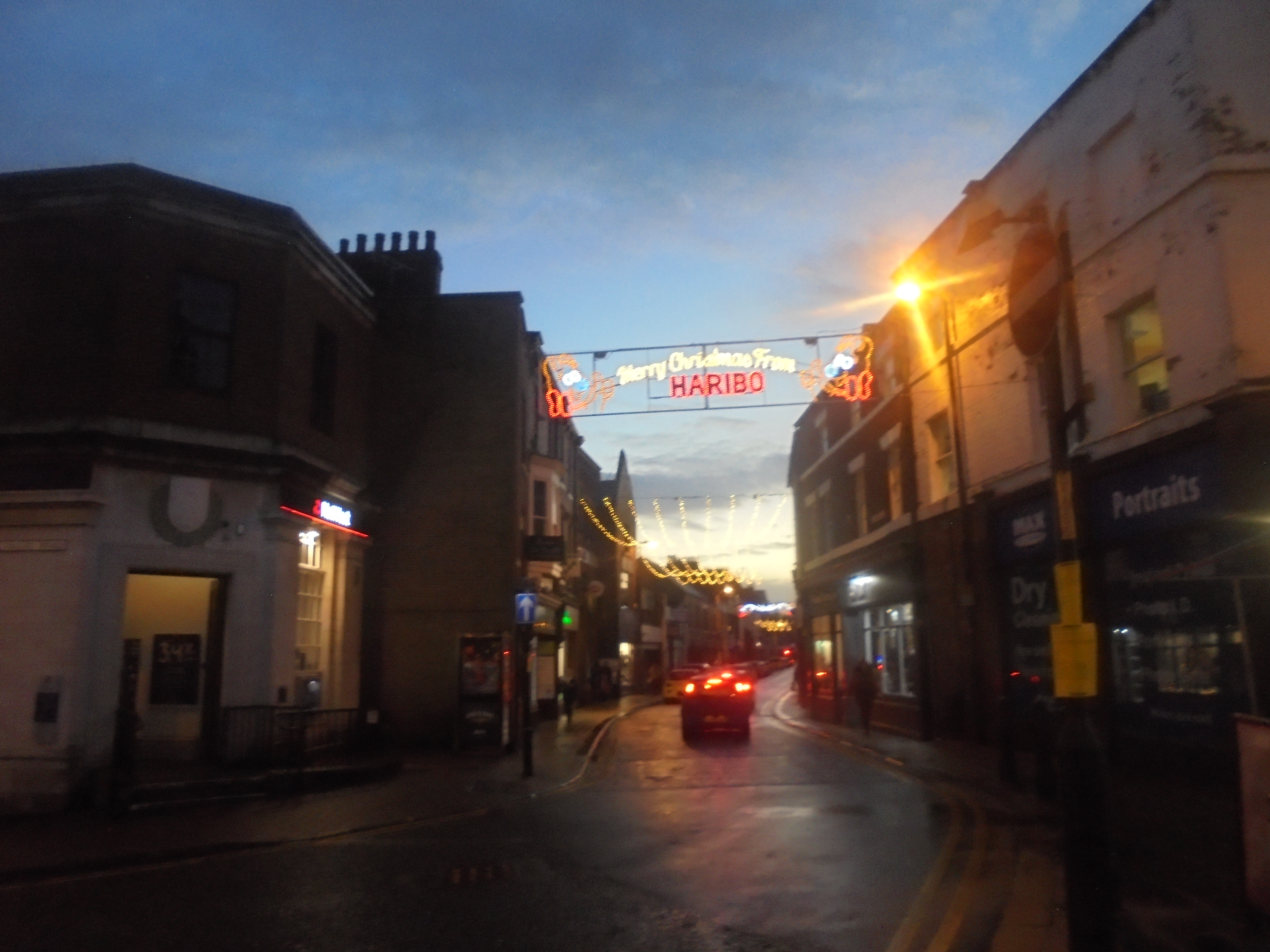 Christmas lights on Ropergate, Pontefract, West Yorkshire. Taken on the evening of Tuesday the 26th of November 2019